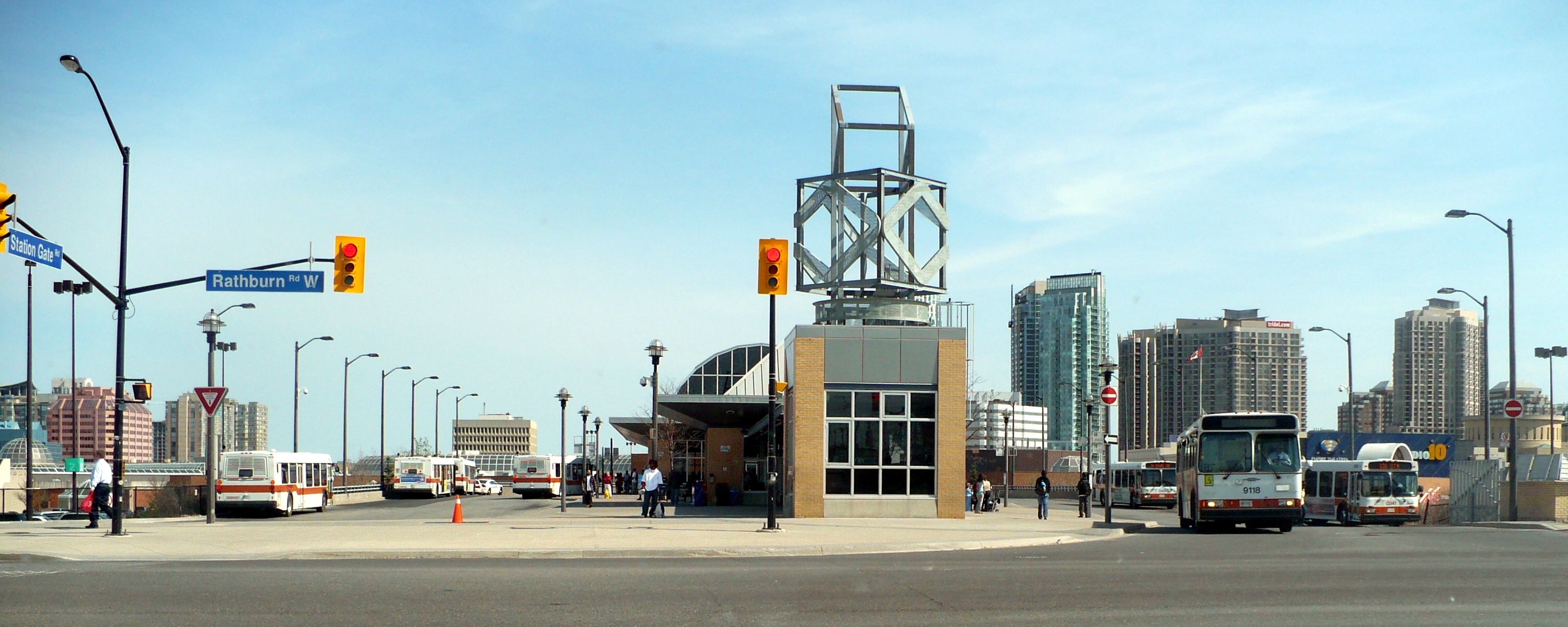 Mississauga Transit Terminal